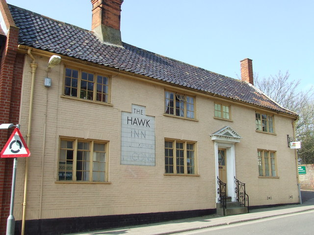 The old Hawk Inn. The old Hawk Inn Bridge Street Halesworth Suffolk. This former pub is were the stores Hawkins Bazaar started and got its name also see 548623 and 548627 for there current warehouse and offices.